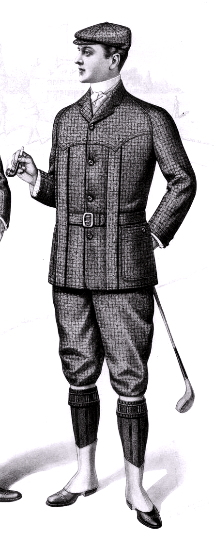 Golfing costume consisting of Norfolk jacket and Knickerbockers, worn with a stiff-collared shirt, knee socks, and golfing cap. Detail of a fashion plate from the Sartorial Arts Journal, New York, 1901